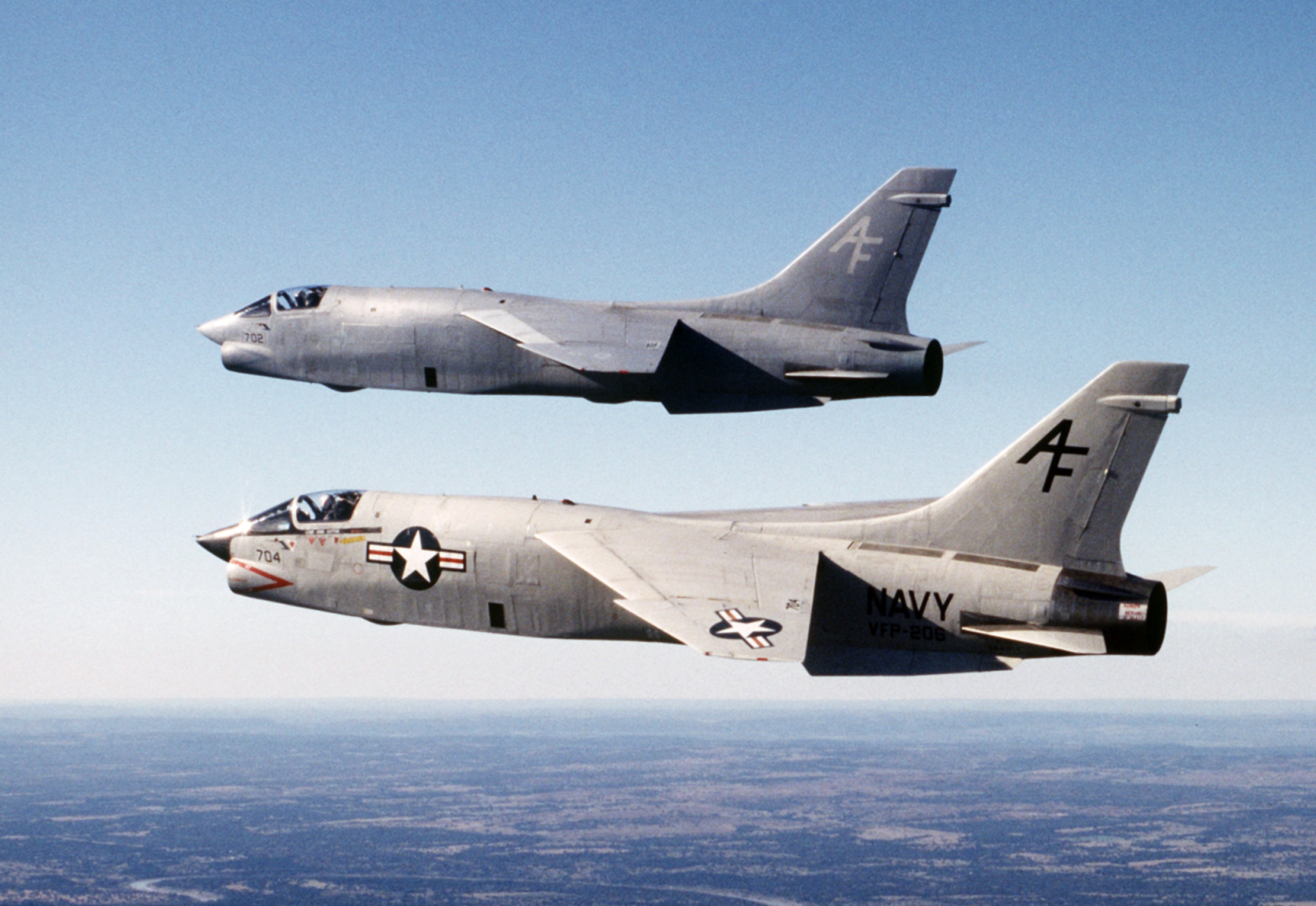 Two U.S. Naval Reserve Vought RF-8G Crusader aircraft from Photographic Reconnaissance Squadron 206 (VFP-206) in formation during "Reconnaissance Air Meet '86" near Bergstrom Air Force Base, Texas (USA), on 1 November 1986.